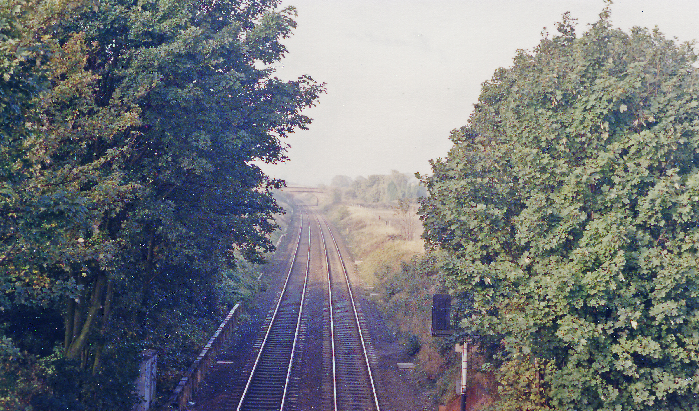 Site of Draycott & Breaston station, 1991 View westward, towards Derby: ex-Midland London - Leicester - Derby etc. main line. The station - actually behind the camera - was closed 14/2/66.